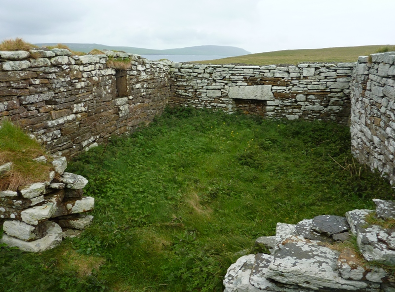 Eynhallow Church, Eynhallow, Orkney, Scotland - one of the outbuildings